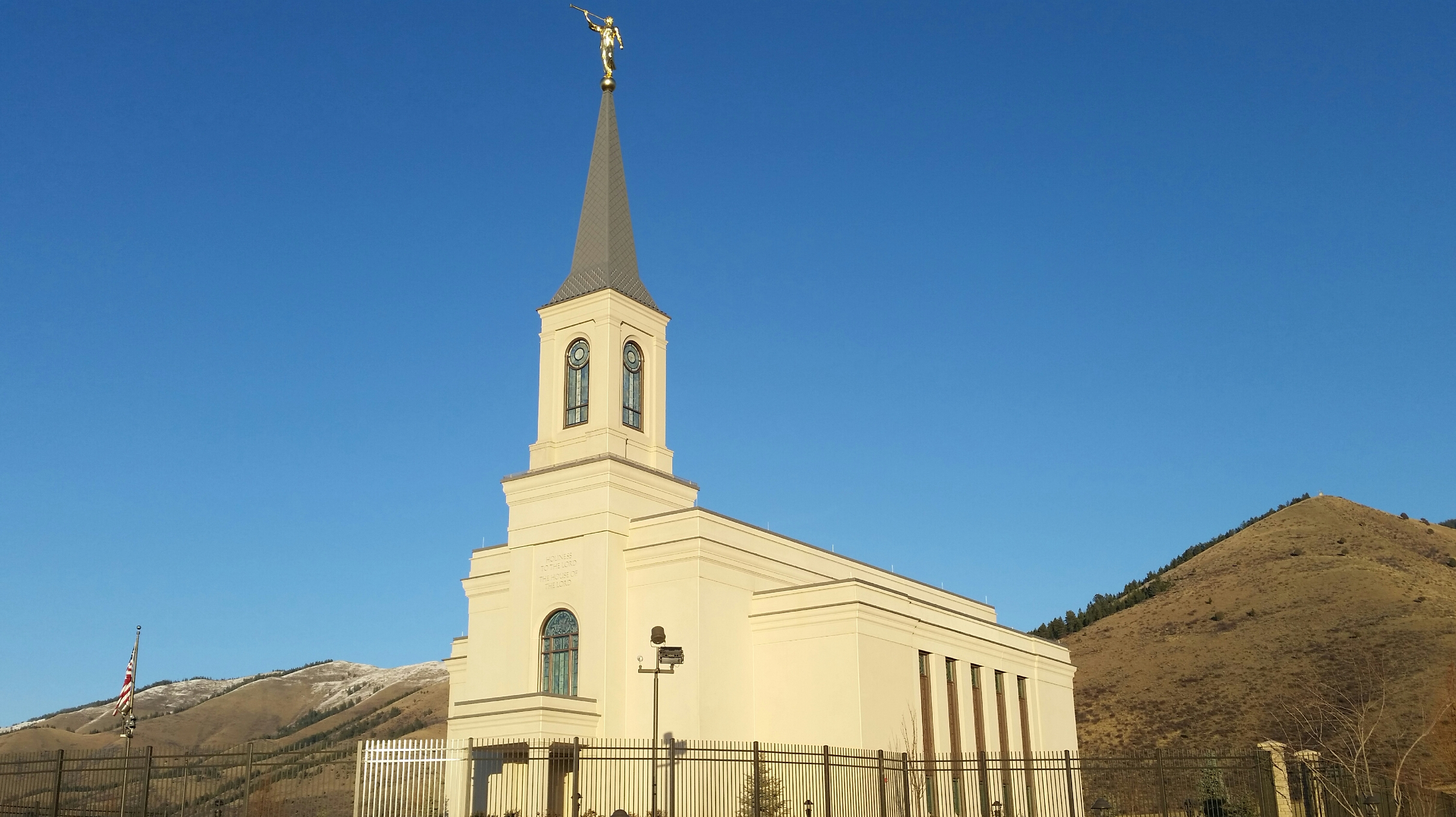 The Star Valley Wyoming Temple of The Church of Jesus Christ of Latter-day Saints, located in Star Valley, Lincoln County, Wyoming.